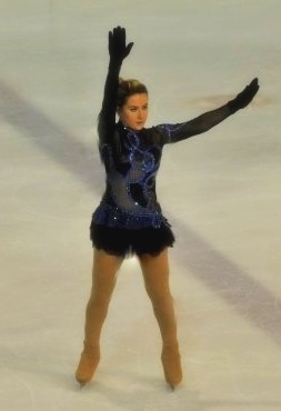 2011 Championship